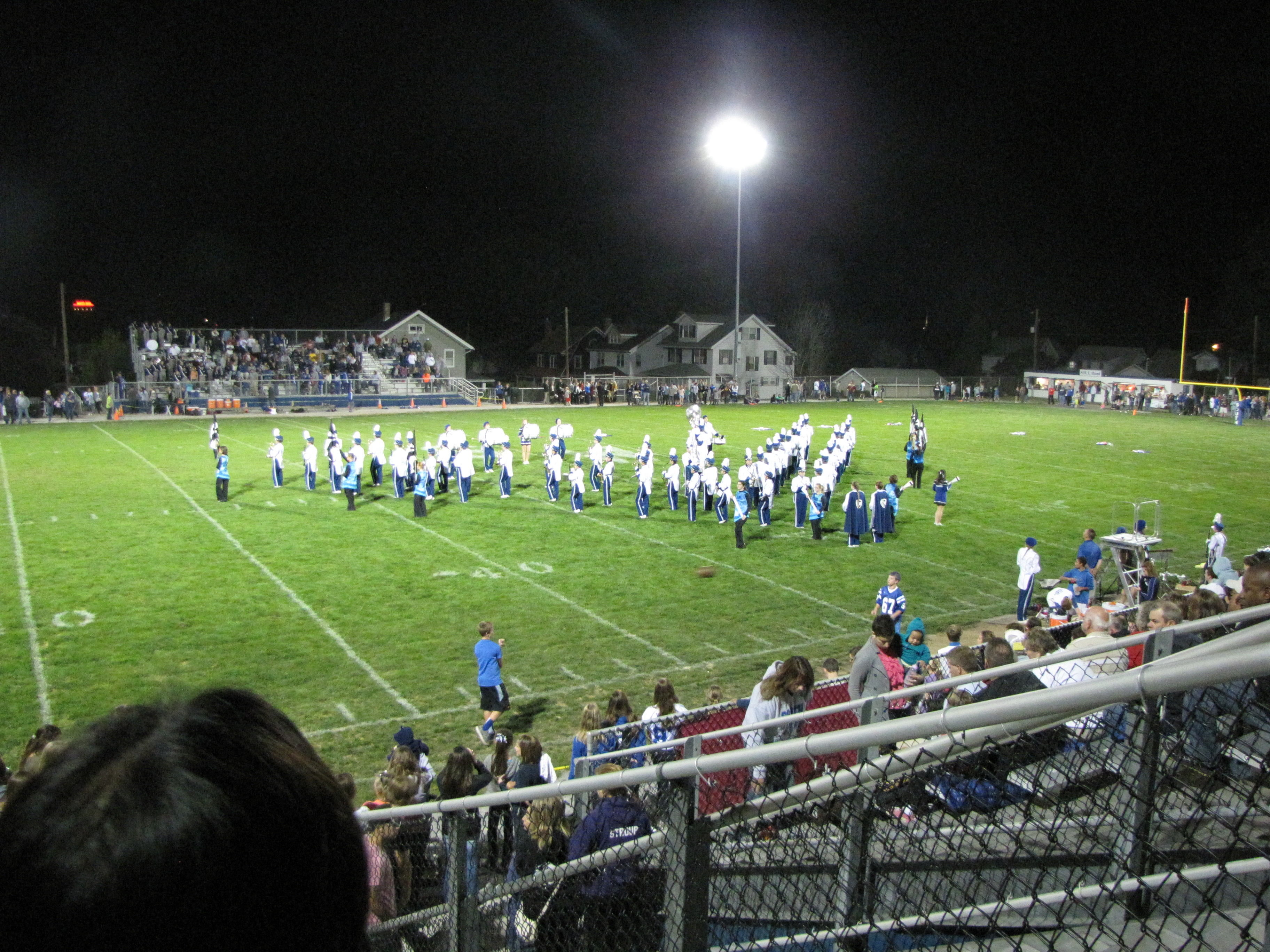 The South Williamsport Mounties Marching Band is a good bit bigger than it was when I was in high school. It's good to see that more kids are participating in band.